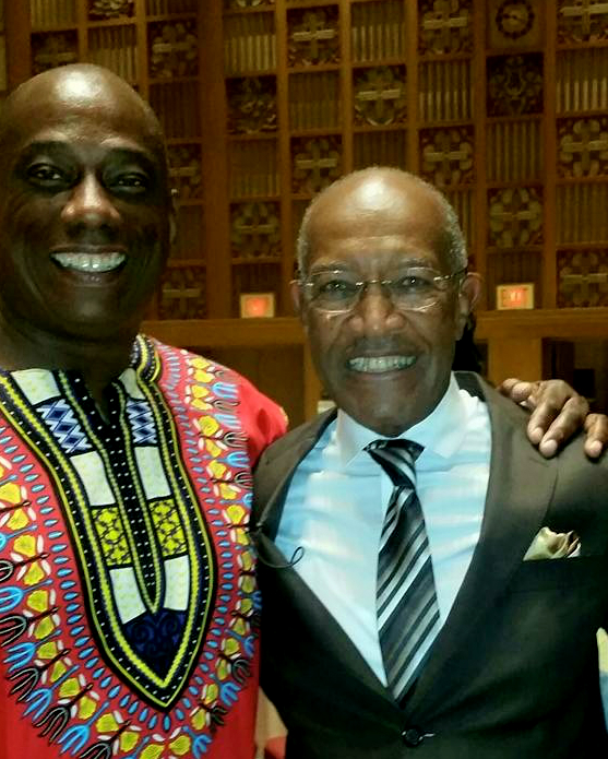 In 2015, opera star Stacey Robinson (left) posed with noted theologian, preacher, and senior pastor emeritus Dr. James A. Forbes of the Riverside church. Robinson has been an active member of the church since 2004 and has participated in many social justice initiatives including its LGBT ministry, Maranatha. (Courtesy of photographer Mary Biggs; modifications (cropping, tone) by Tom Sulcer. Exact date is approximate.)